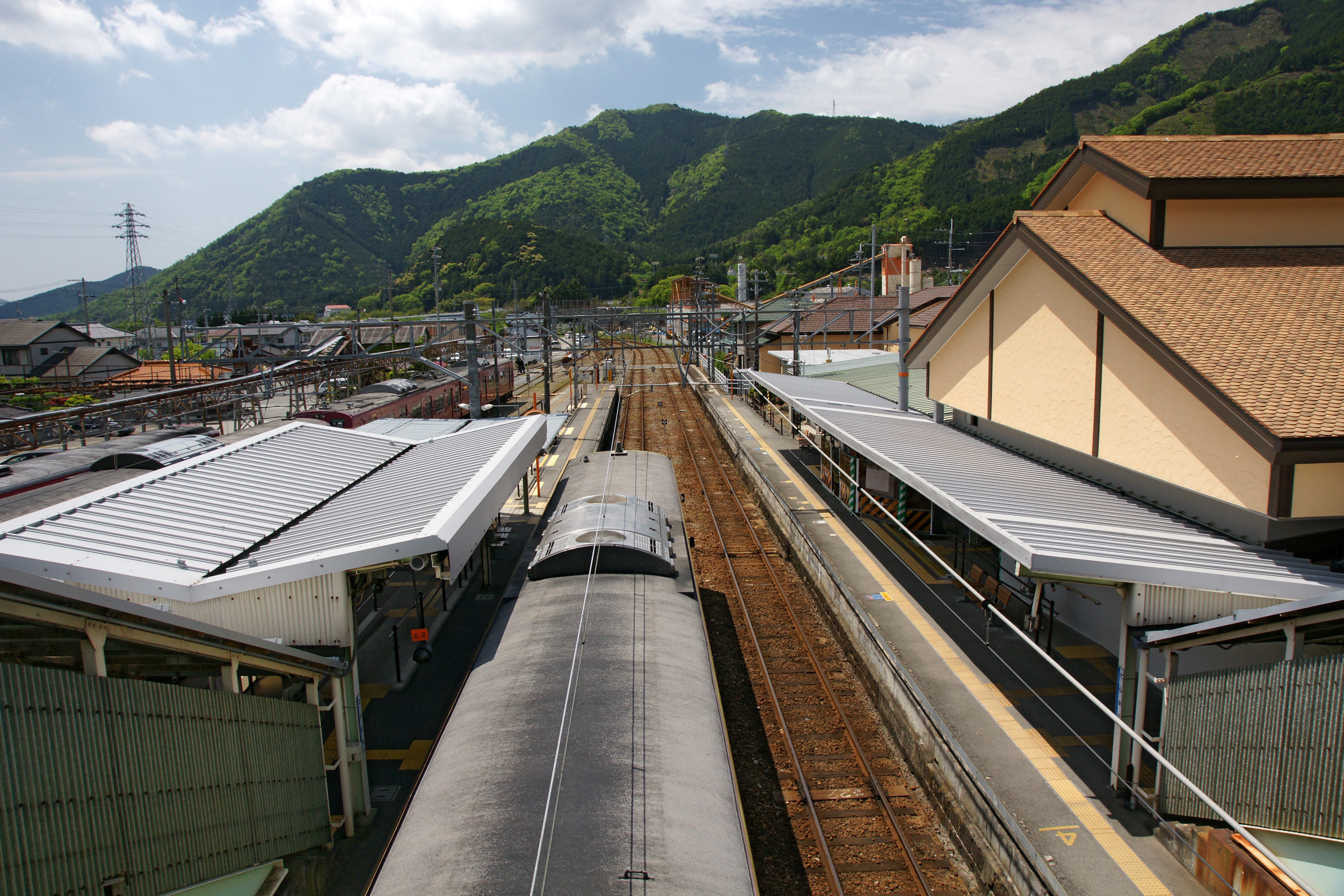 Teramae Station in Kamikawa, Hyogo prefecture, Japan.